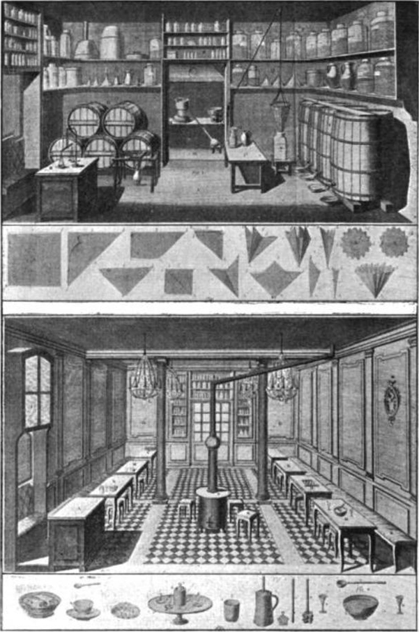 18th-Century French Café Supplies